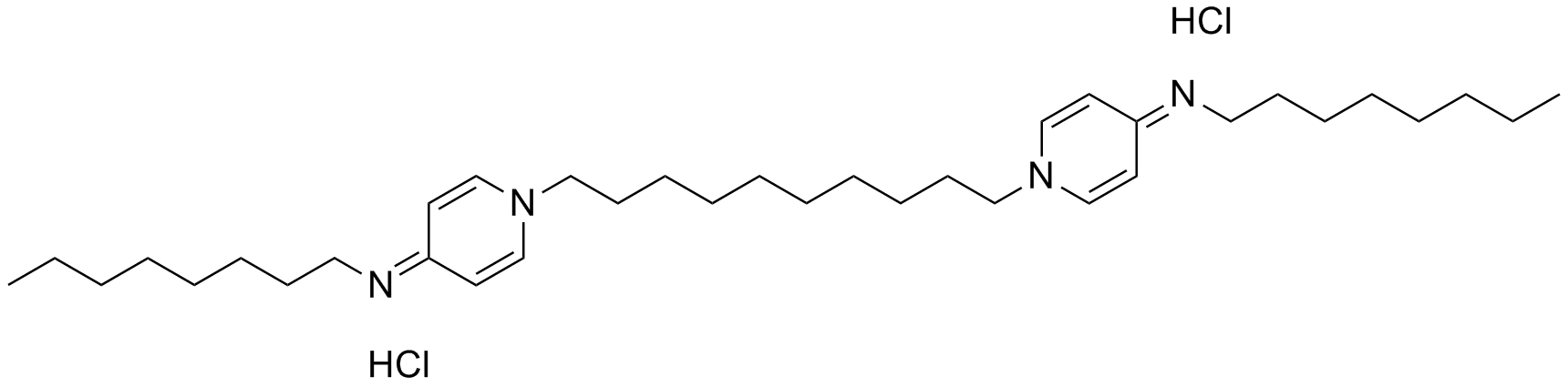 Chemical structure of octenidine dihydrochloride